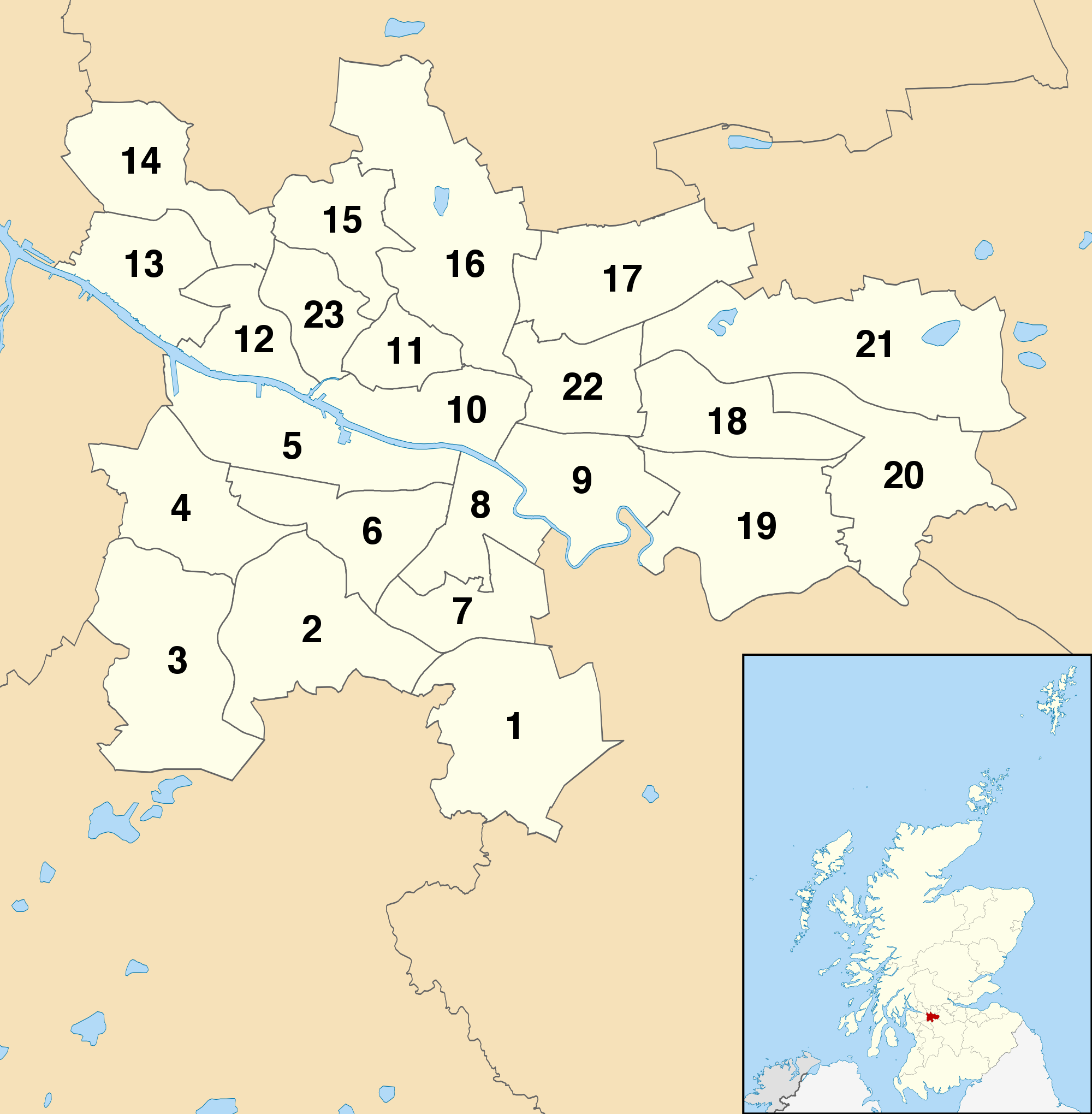 Glasgow's wards labelled by number